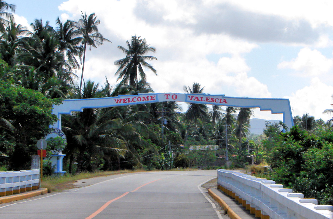 Valencia, Bohol, the Philippines